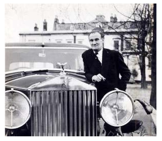 Edward Arnold (Eddie) Chapman 1914-1997; gangster and WW2 double agent pictured aside his Rolls Royce.